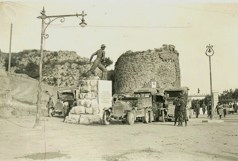 Image of Vulture earthquake in Ariano di Puglia (now Ariano Irpino)